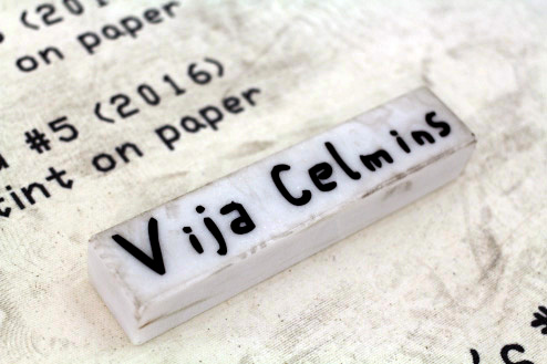 the labels are done in an easy and mulitfunctional way. they can be used inside the exhibition space to label the ”fix works“. but they can be also used for temporary works, like performances. after being used they can disappear. they can be placed quickly to mark an artwork at its place. there are two elements for the labels: marble and canvas